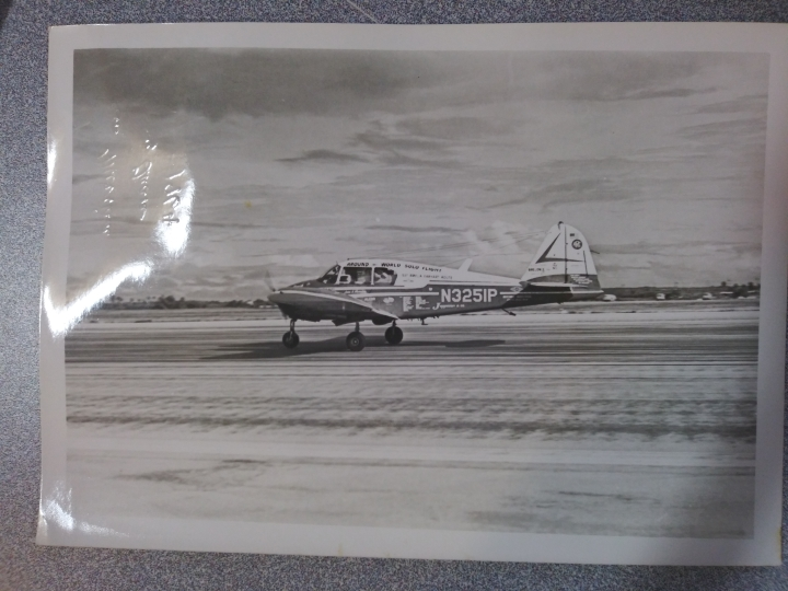 Aircraft flown by Joan Merriam on her flight record attempt in 1964.